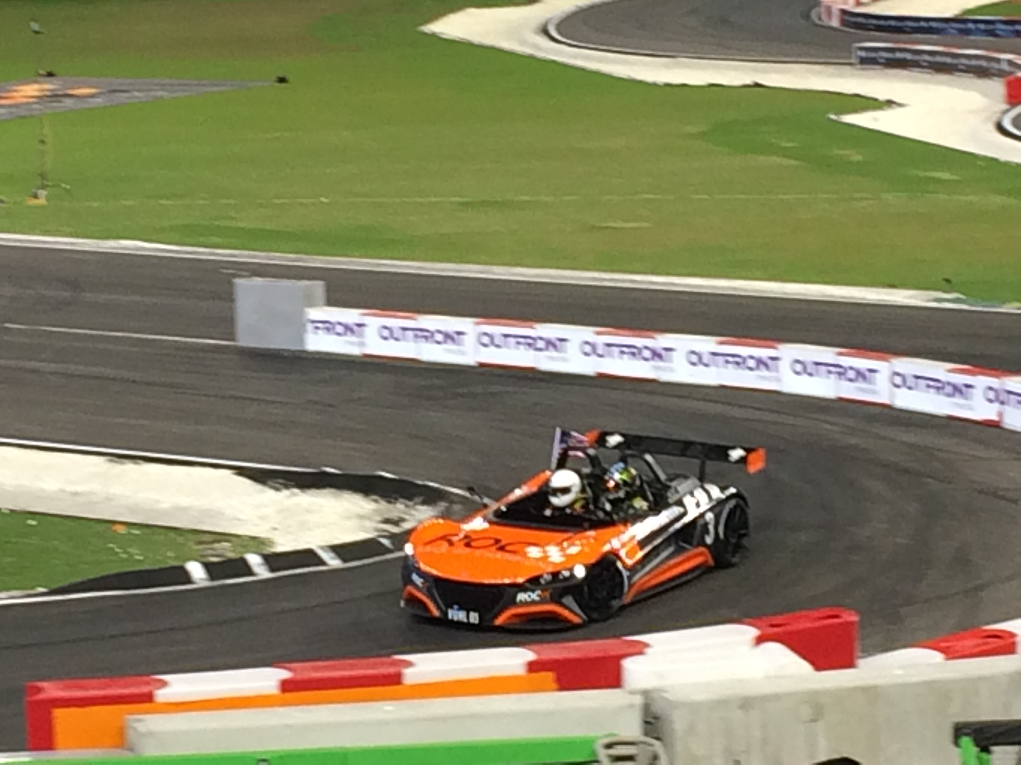 2017 Race of Champions - Saturday, January 21